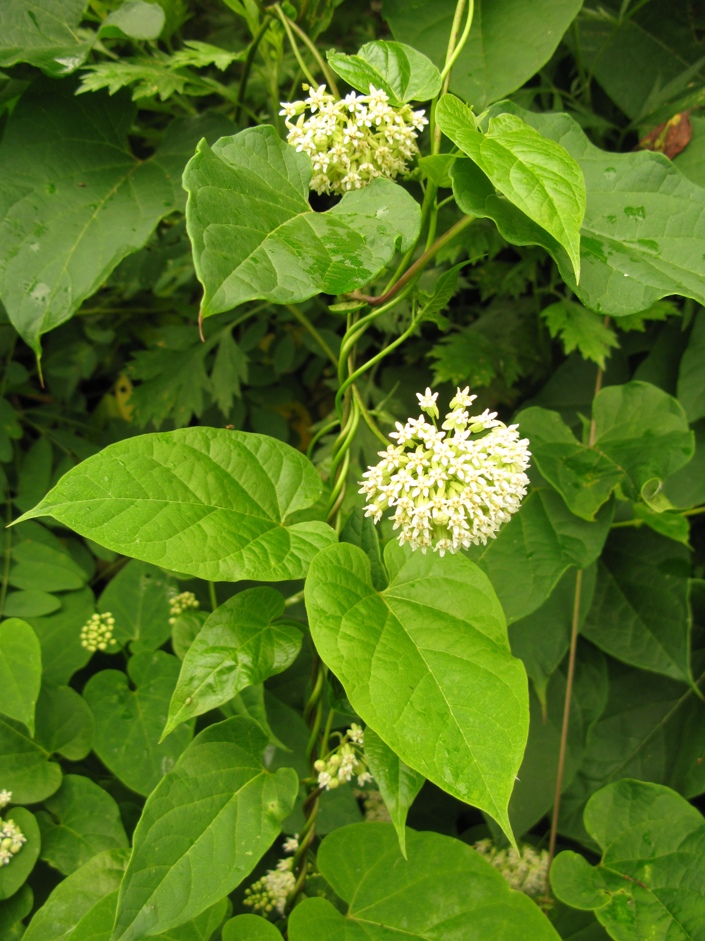 Cynanchum maximoviczii,Aizu area,Fukushima pref.,Japan